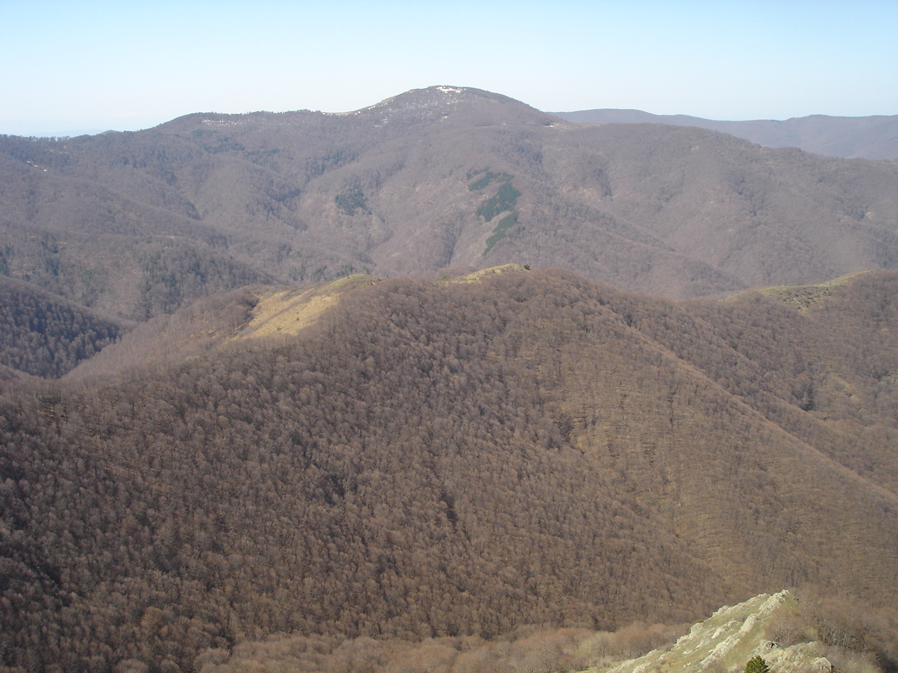 Lisec peak on Plackovica mountain, Macedonia